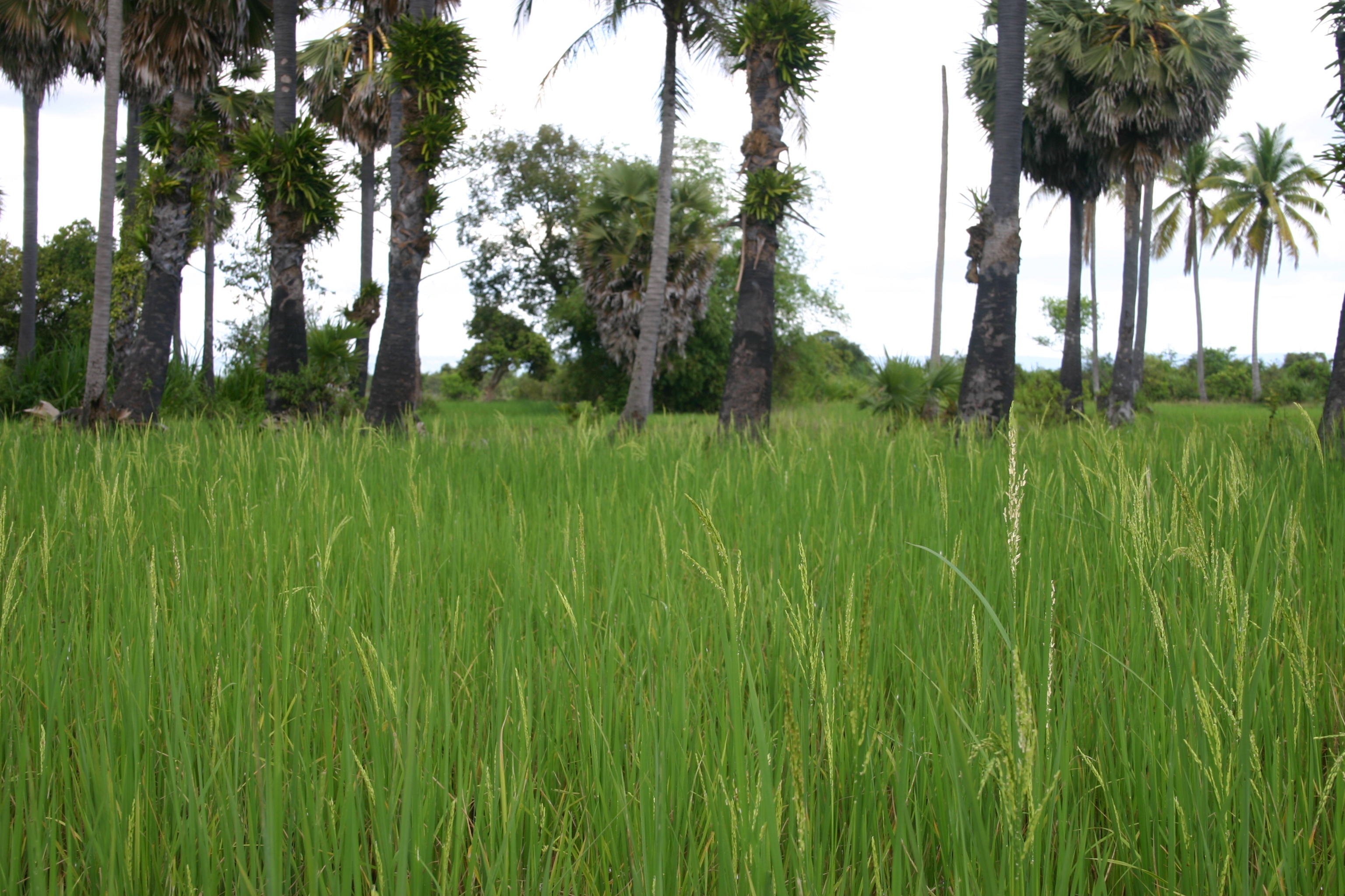 Pola ryżowe w Kambodży